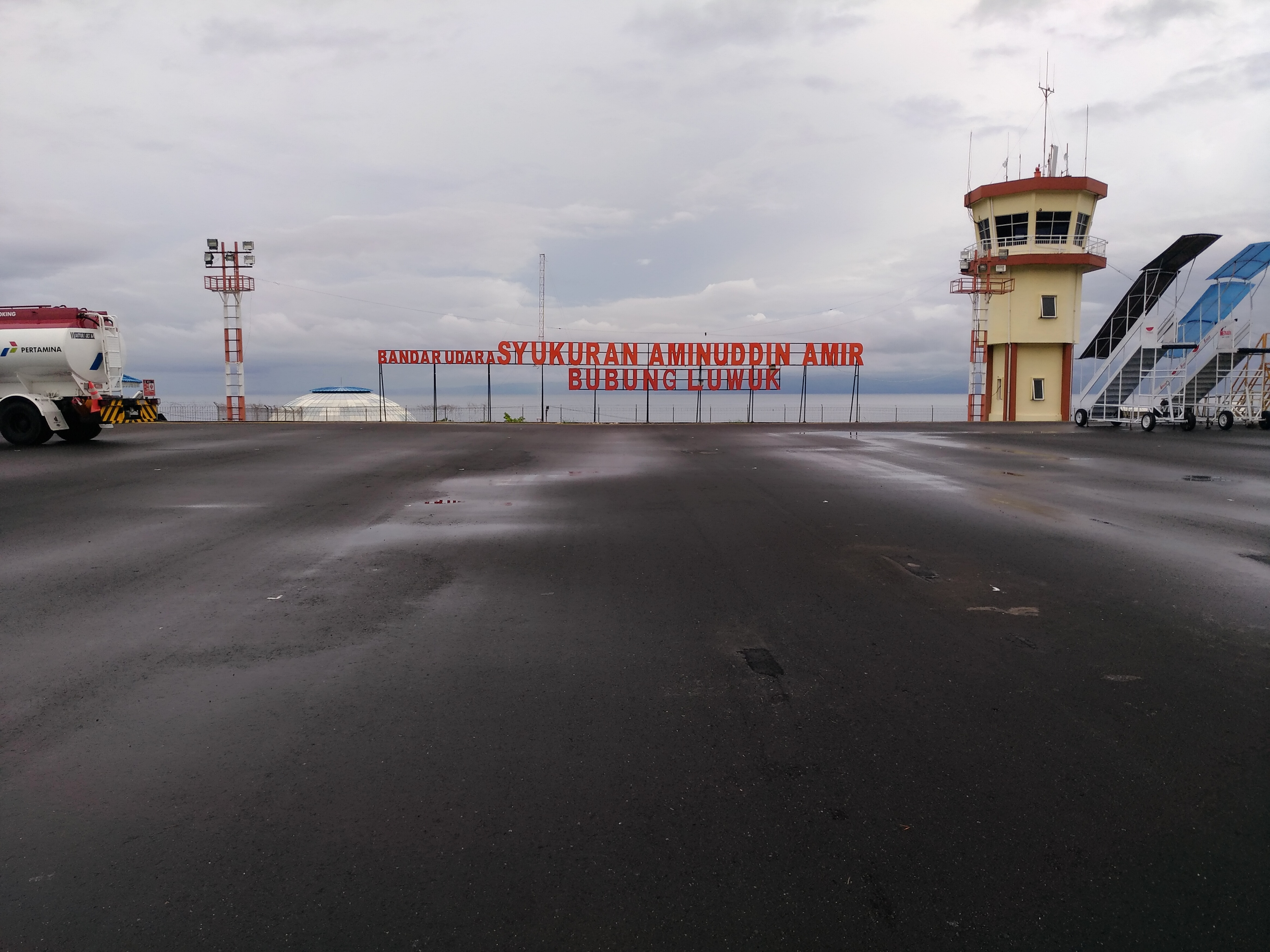 Syukuran Aminuddin Amir Airport